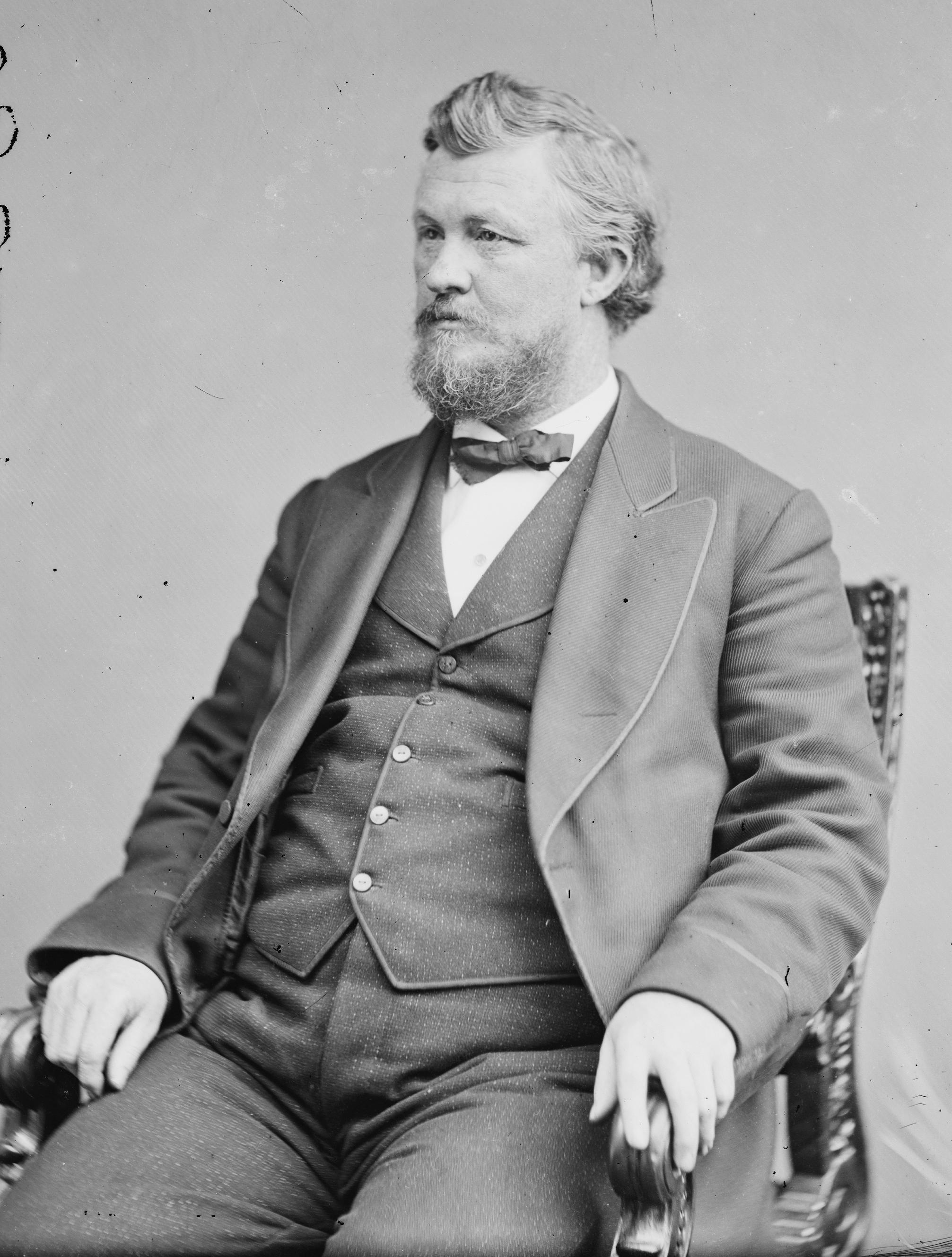 James W. McDill. Library of Congress description: "McDill, Hon. James Wilson of Iowa".